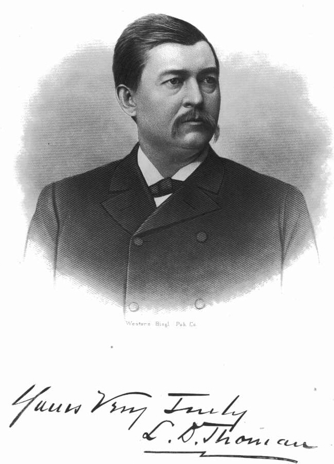 Portrait from 1896 book